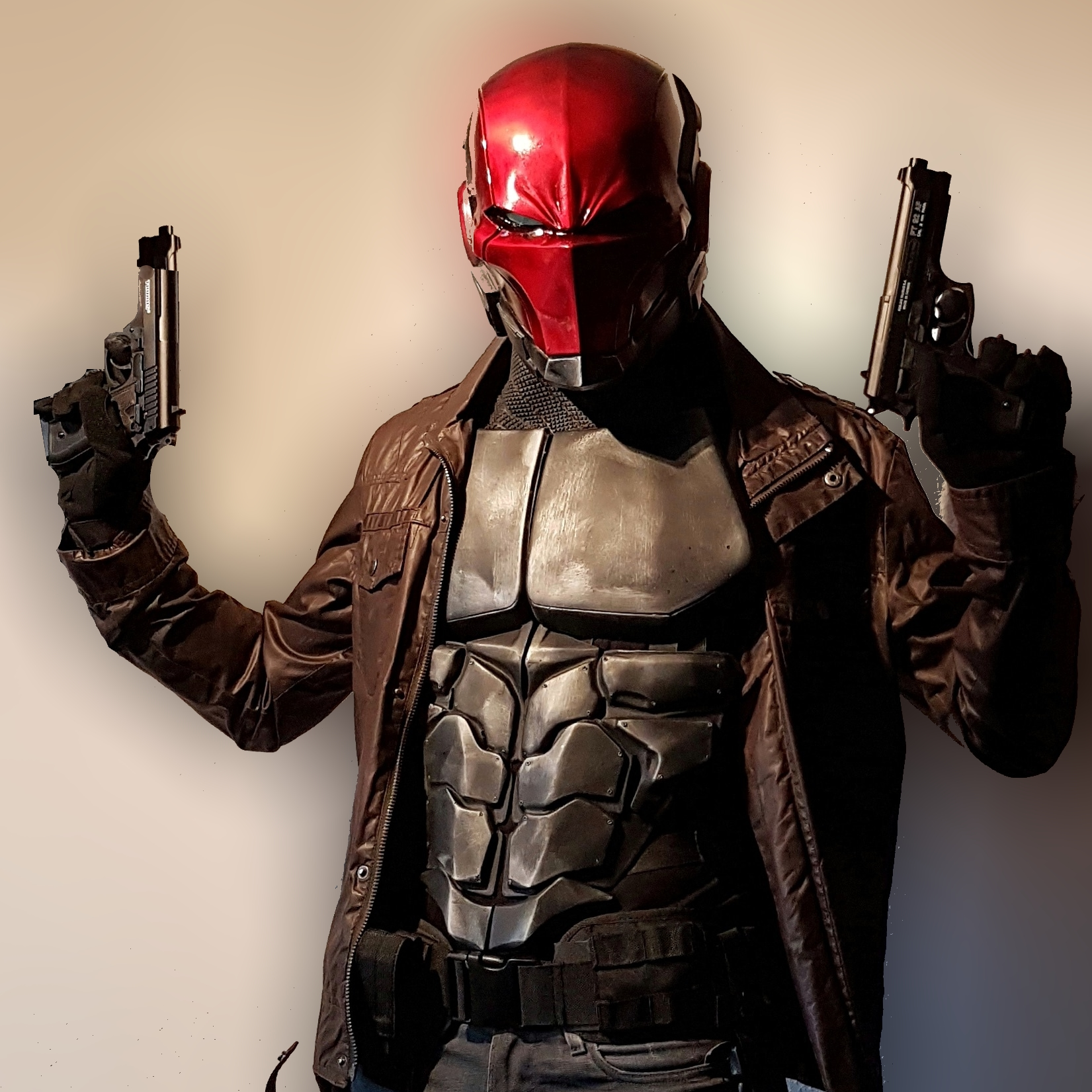 Cosplayer as Red Hood